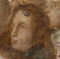 The Anti-Slavery Society Convention, 1840 - extract showing Richard Robert Madden